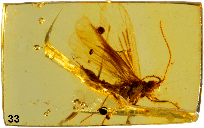 Tarachocelis microlepidopterella holotype, ♂ , lateral view.